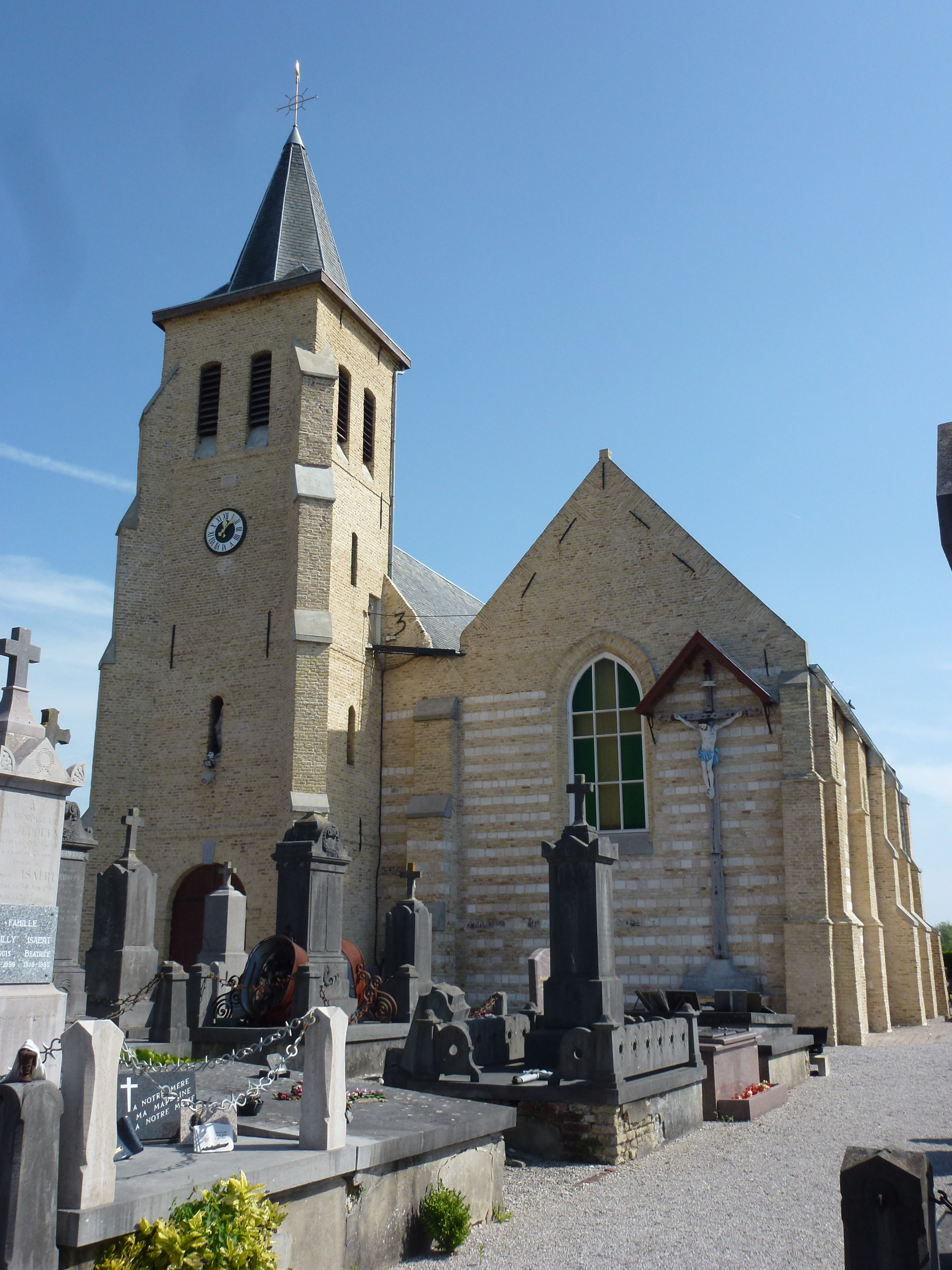 Saint-Folquin (Pas-de-Calais) église Saint-Folquin